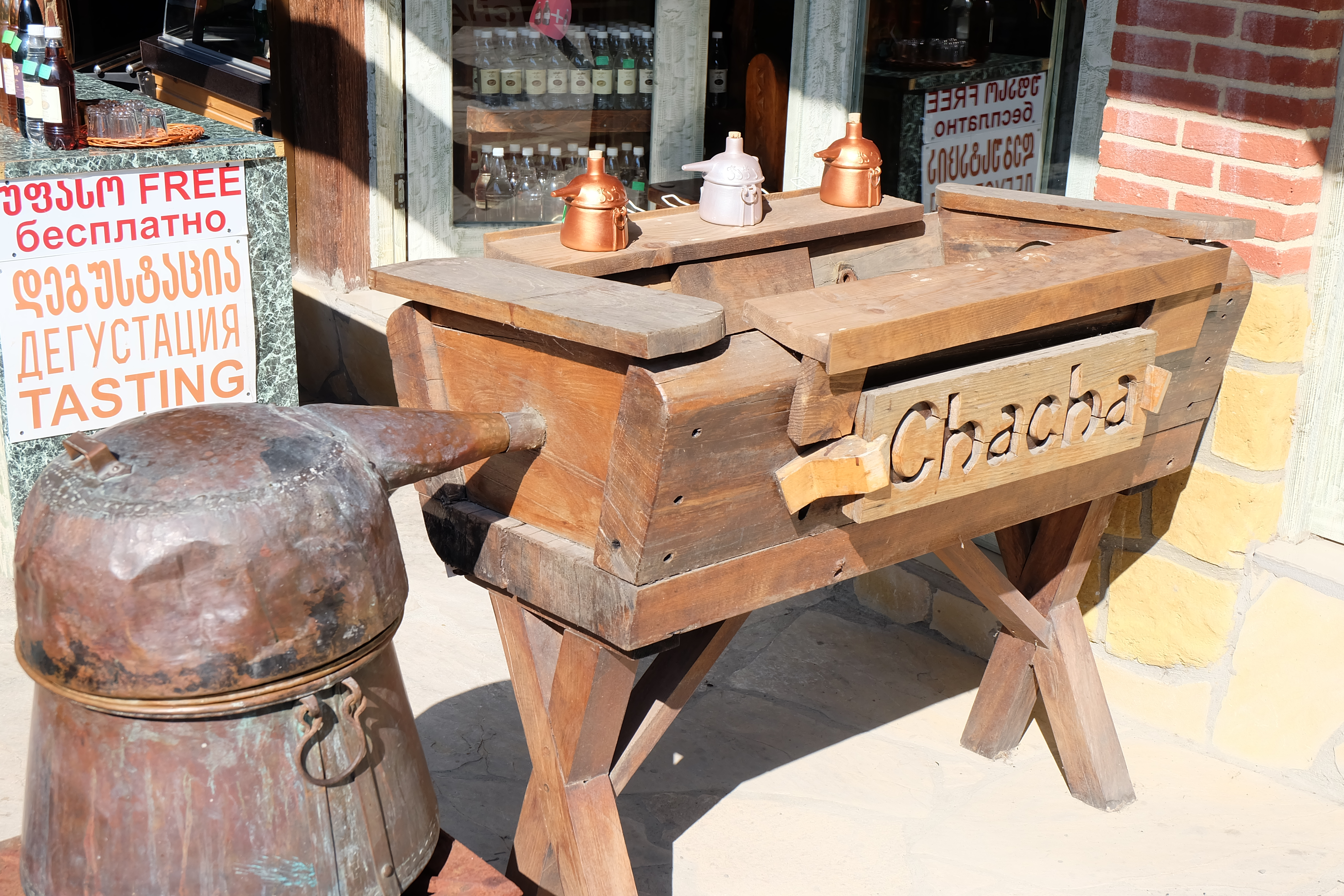 A still for distilling Chacha, or Georgian vodka- this is what a typical home chacha distillery would look like.. I tried it on a couple of occasions (not here though), and it is pretty heady stuff. This still, sitting in the glistening afternoon sun, appeared to be for display only. Chacha is a Georgian pomace brandy, a clear and strong (ranging between 40% alcohol for commercially produce to 65% for home brew), which is sometimes called "vine vodka", "grape vodka", or "Georgian vodka/grappa". It is made of grape pomace (grape residue left after making wine). The term chacha is used in Georgia to refer to grape distillate. It may be also produced from unripe or wild grapes. Other common fruits or herbs used are figs, tangerines, oranges, mulberries or tarragon. Many Georgians claim chacha has medicinal properties and is suggested as a remedy for a number of ailments. (Mtskheta, Georgia, Sept. 2016)